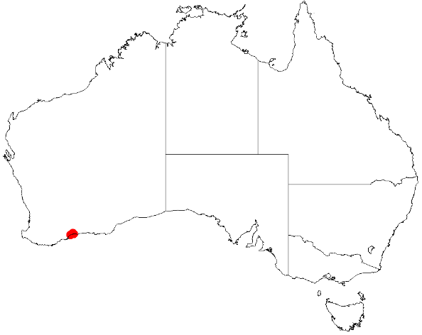 Scaevola tenuifolia occurrence data downloaded from Australasian Virtual Herbarium on 12 May 2019